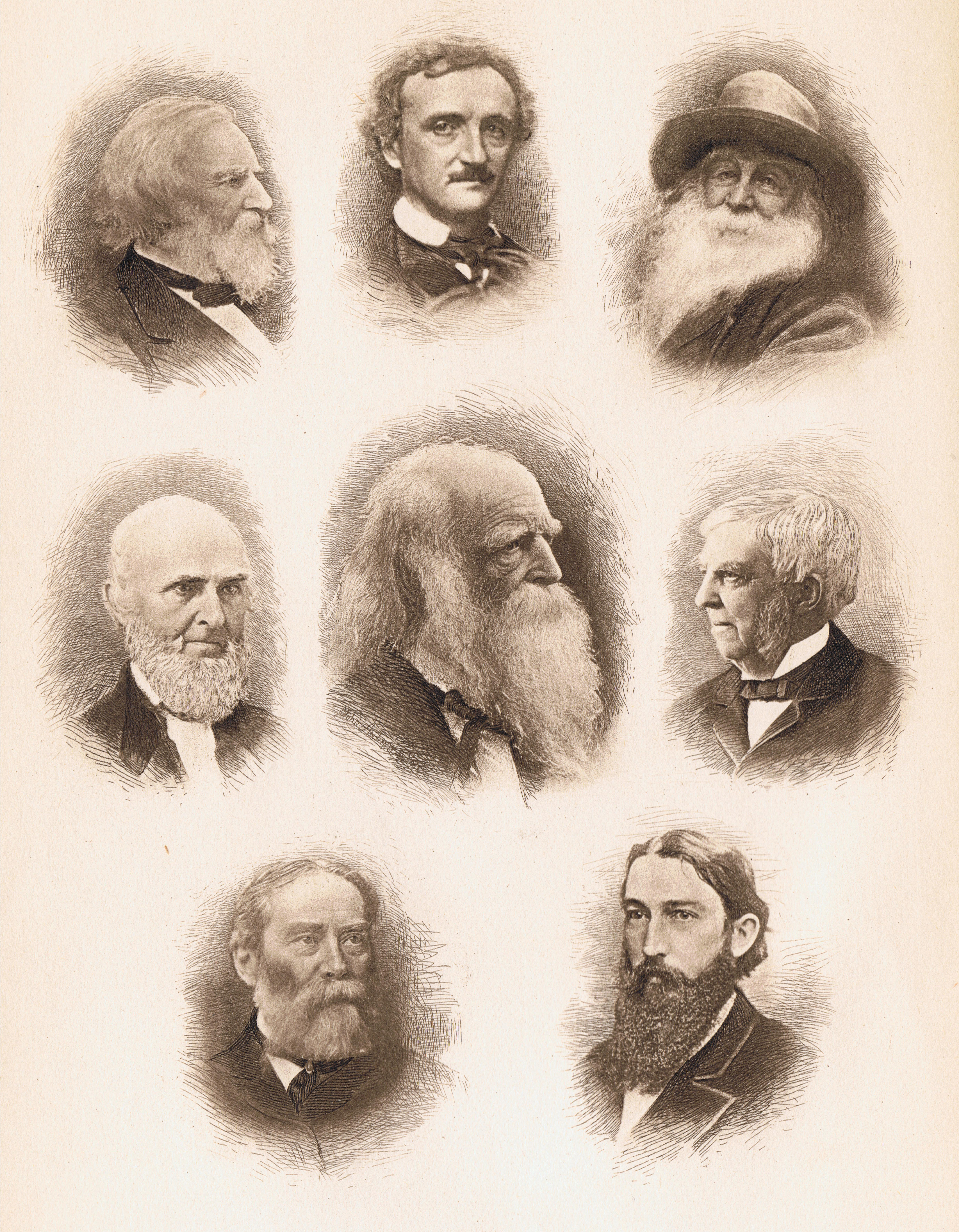 Scan of the frontispiece of An American Anthology (1787-1900) by Edmund Clarence Stedman, ed. Houghton, Mifflin and Company.Pictured: center: William Cullen Bryant; clockwise from top: Poe, Whitman, Holmes, Lanier, Lowell, Whittier, Longfellow.